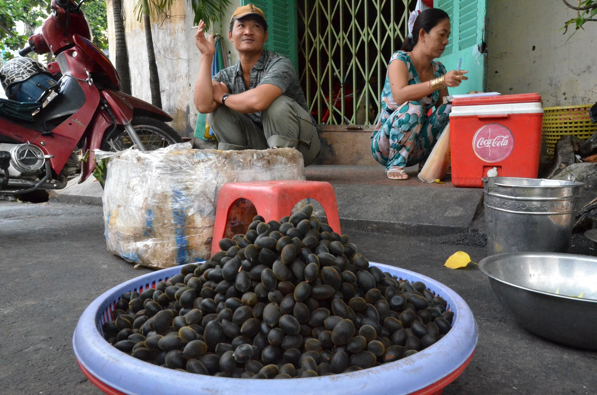 The fruit of the Canarium cochinchinense at a market in Saigon.